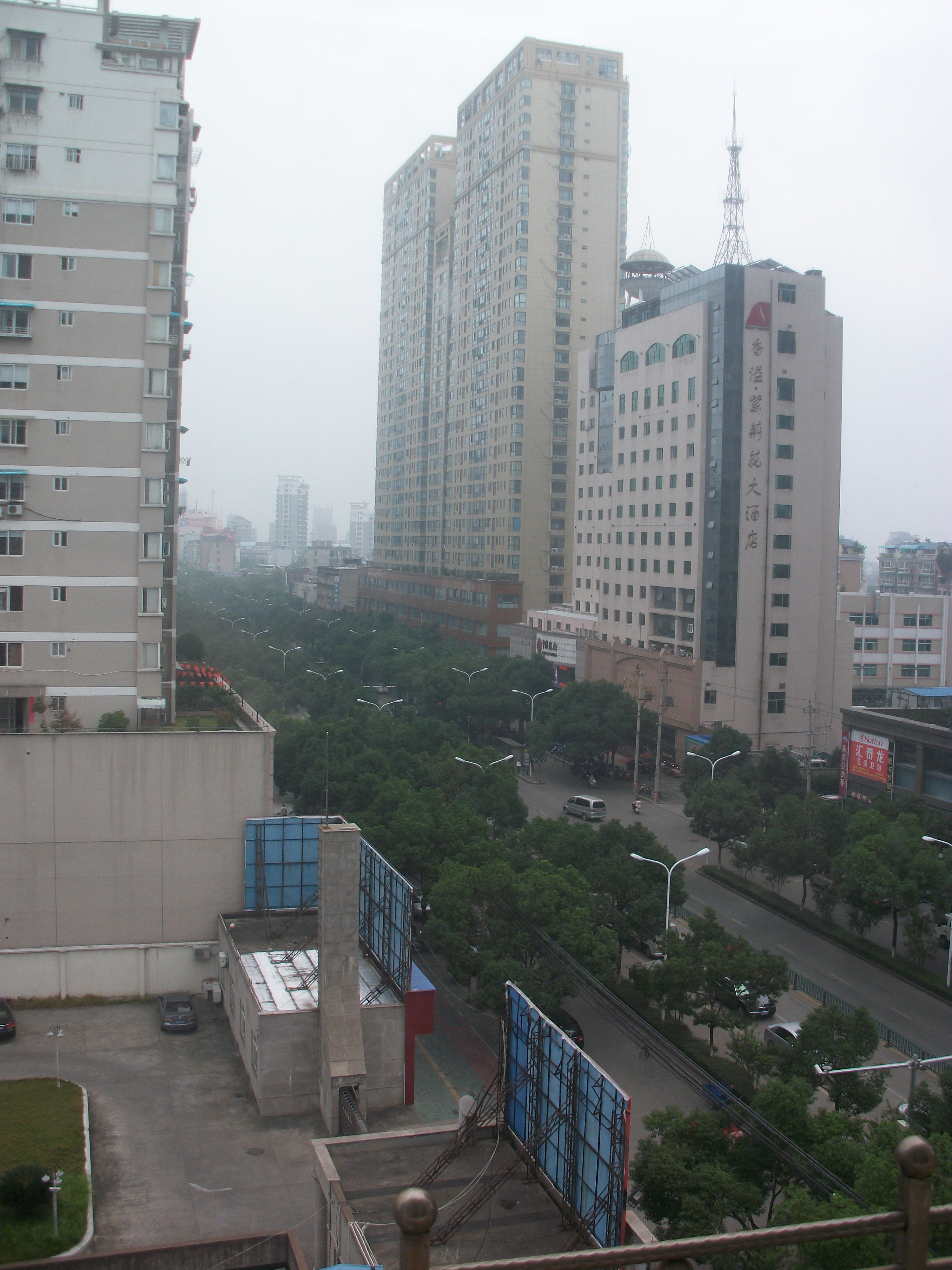 Lishui, Zhejiang ... 2011-10-30